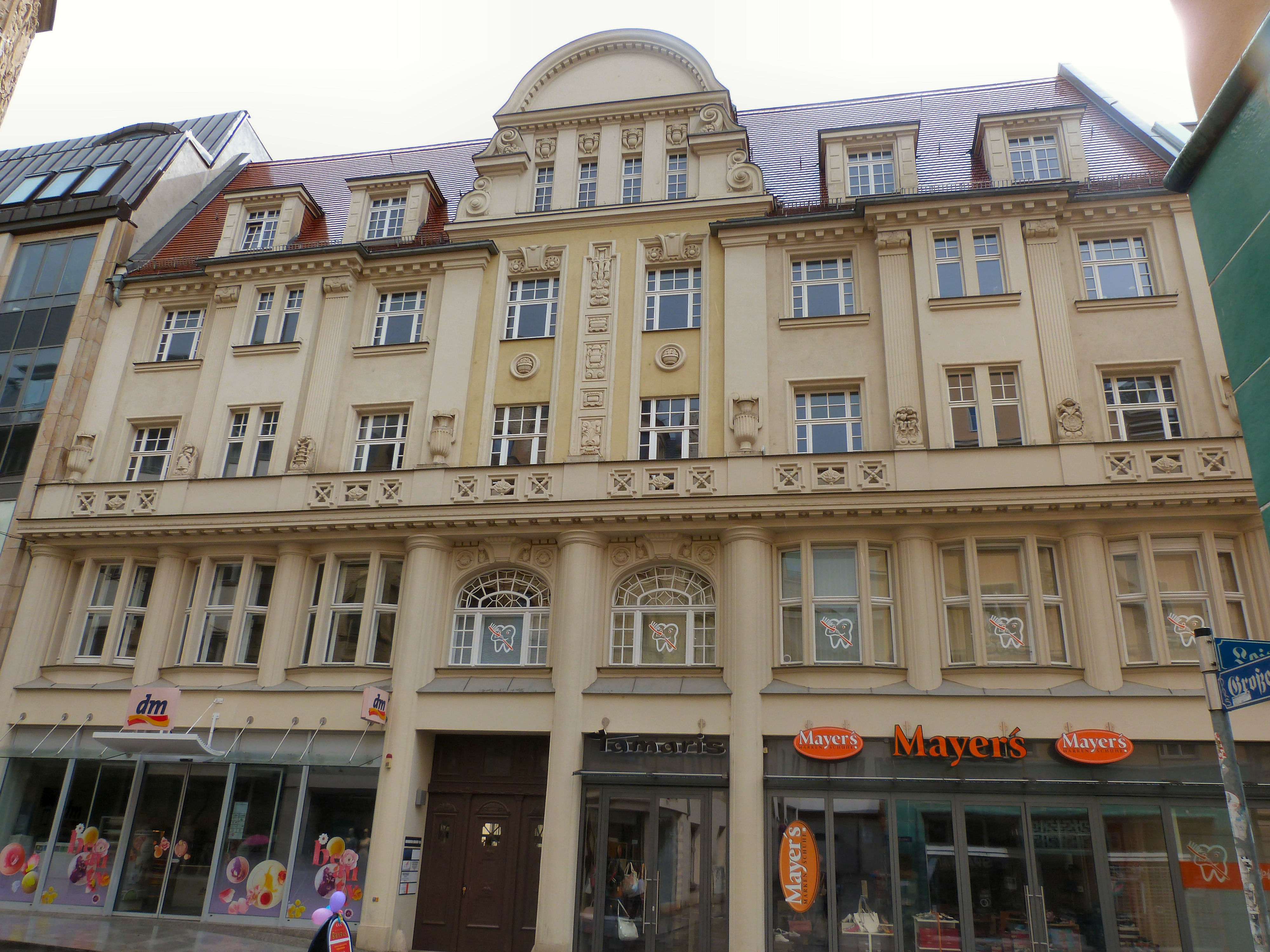 House No. 93, Leipziger Strasse in Halle (Saale)